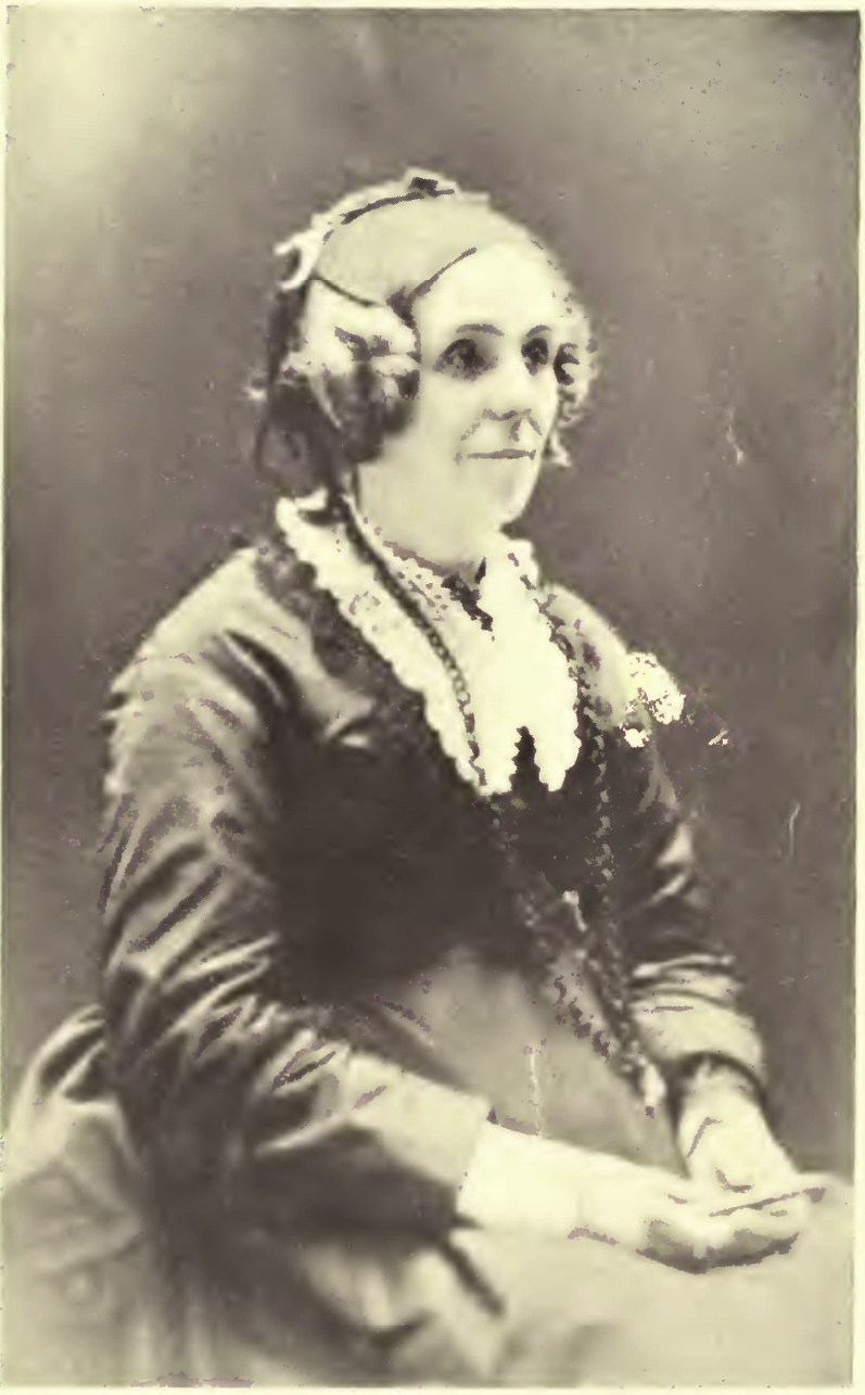 Source : Alfred SAKER, The Pioneer of the Cameroons (1908). By his daughter Emily M. SAKER (1849-?) Page 32 or